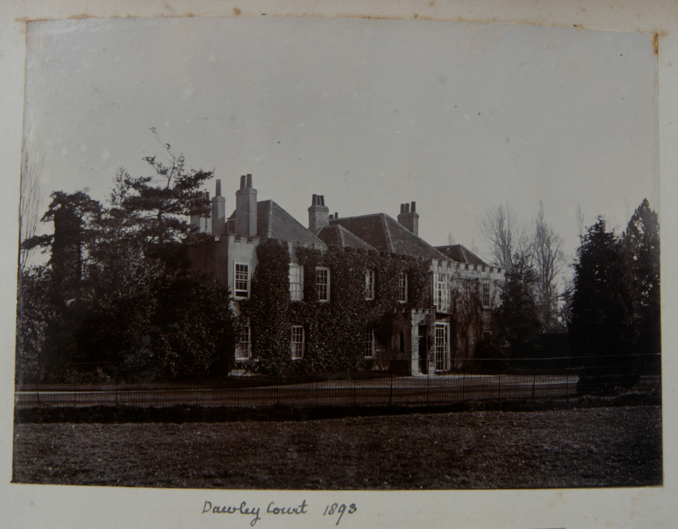 Photo by me (R. de Salis, Rodolph (talk) 09:36, 22 July 2015 (UTC)) of Dawley Court, Goulds Green, Middlesex in 1893, when it belonged to William Fane De Salis (died 1896).